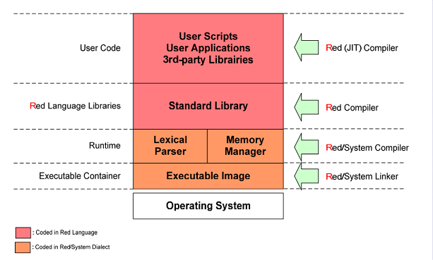 Official scheme of the Red programming language.